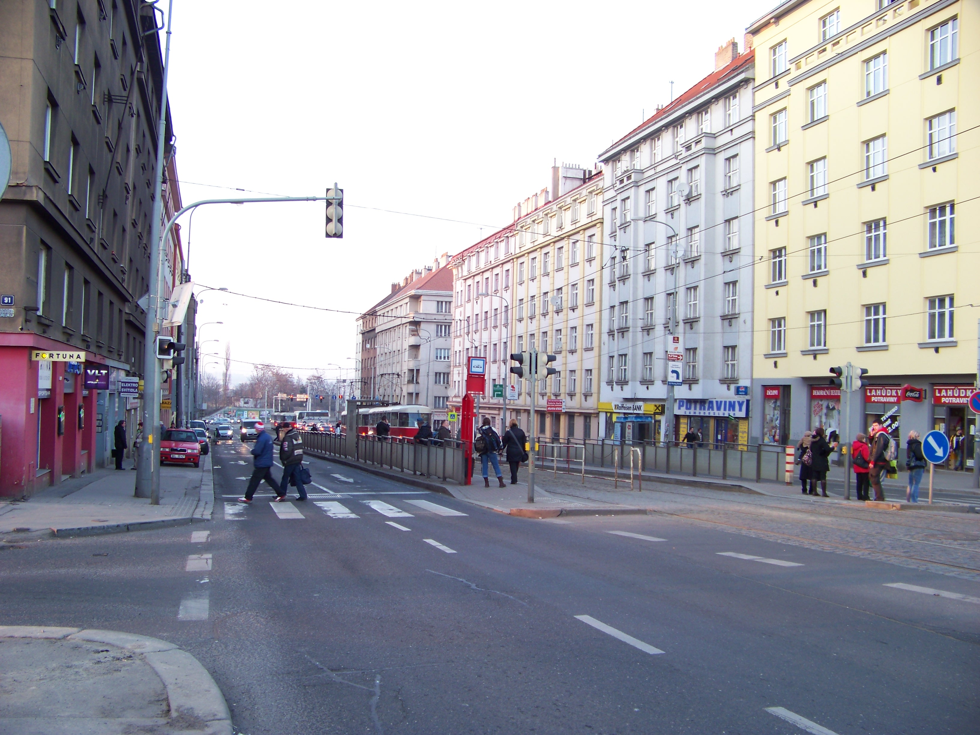 Prague-Žižkov, the Czech Republic. Jana Želivského street, tram stop Biskupcova.